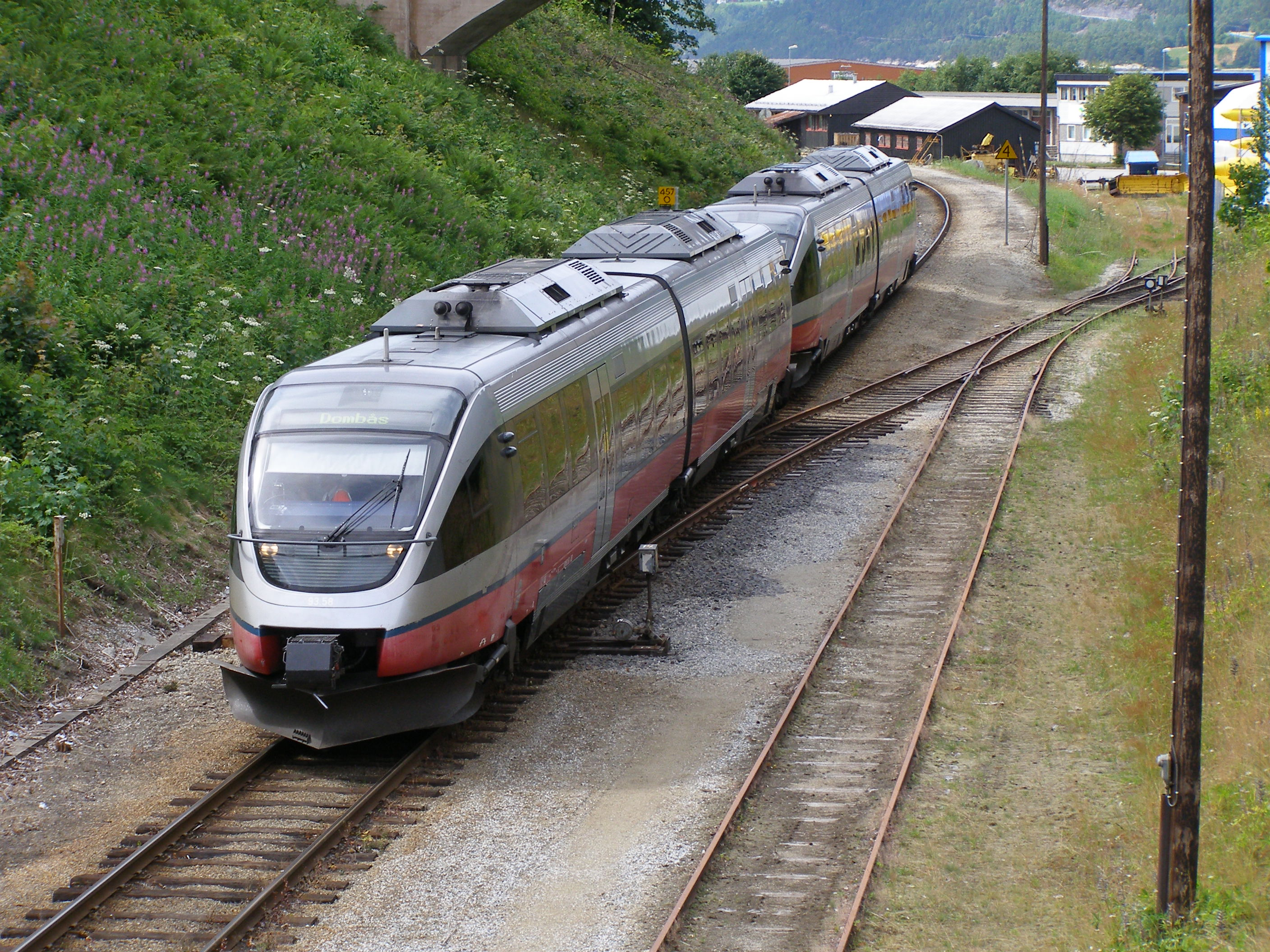 NSB Class 93 at Åndalsnes Station, Norway